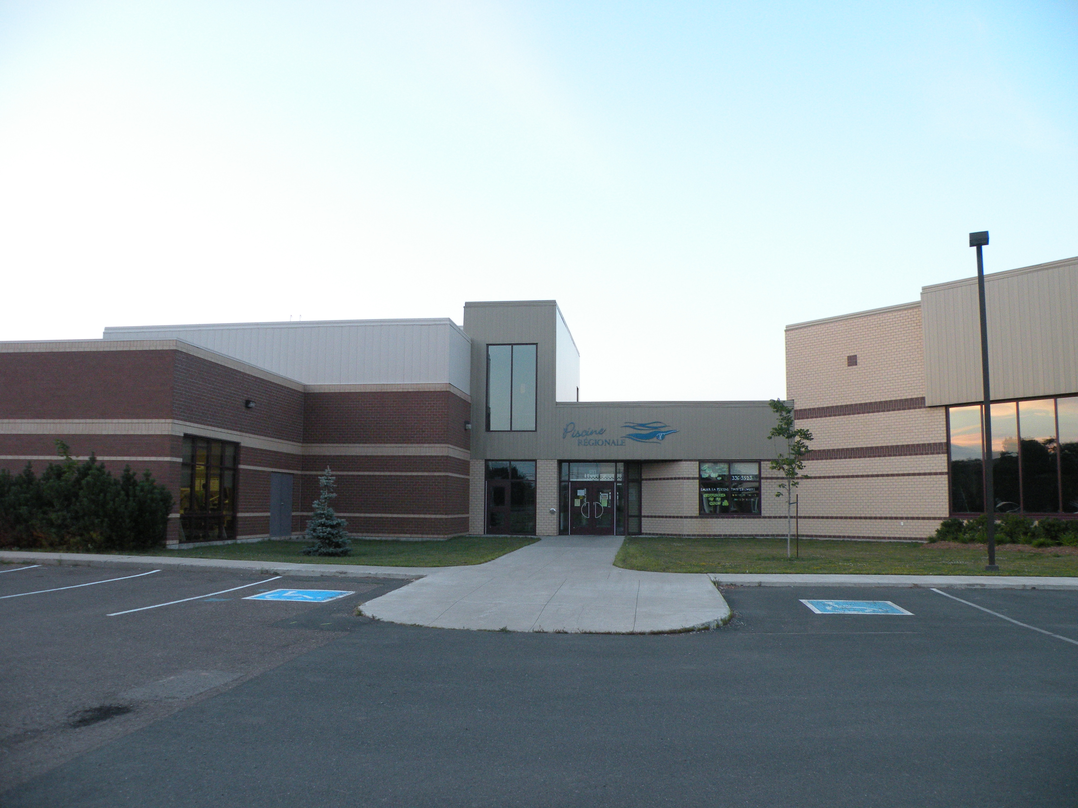 Regional pool of Shippagan, New Brunswick, Canada